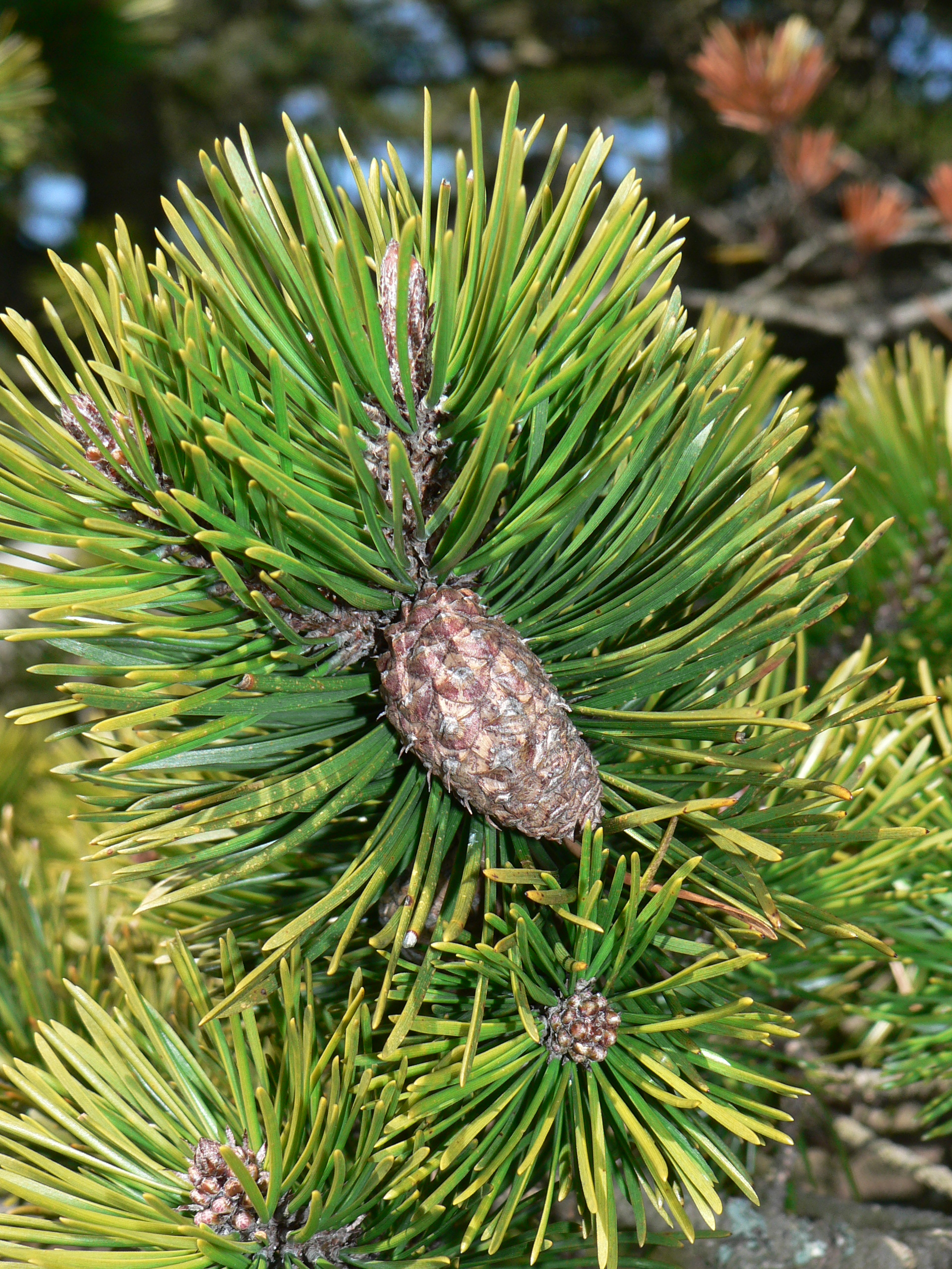 Shore Pine